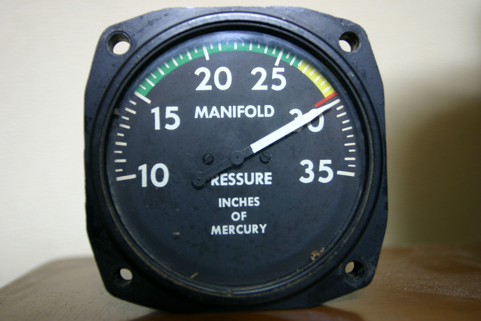 Manifold Pressure Gage.